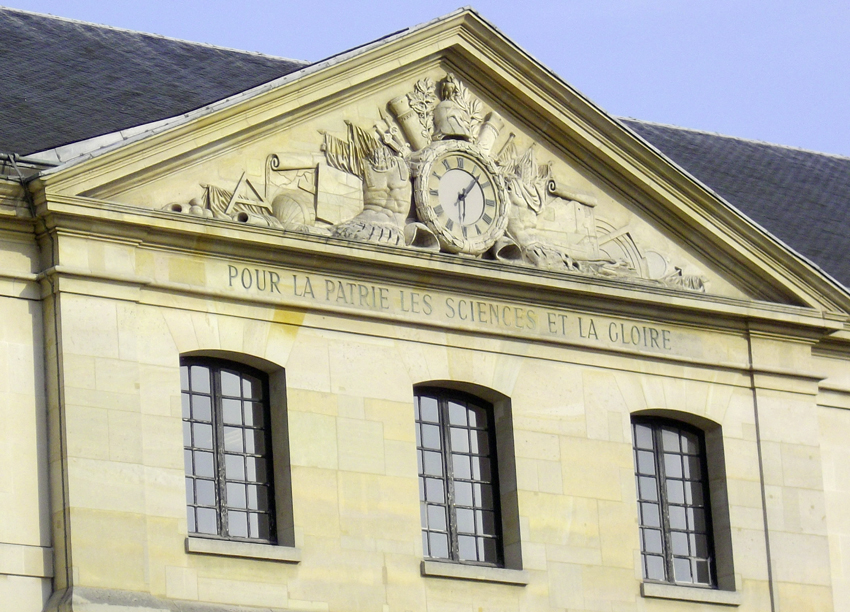 École polytechnique Paris pediment of the pavilion Joffre Jardin carré “Pour la patrie la science et la gloire” 110417; 72dpi 30cm × 21,6cm.